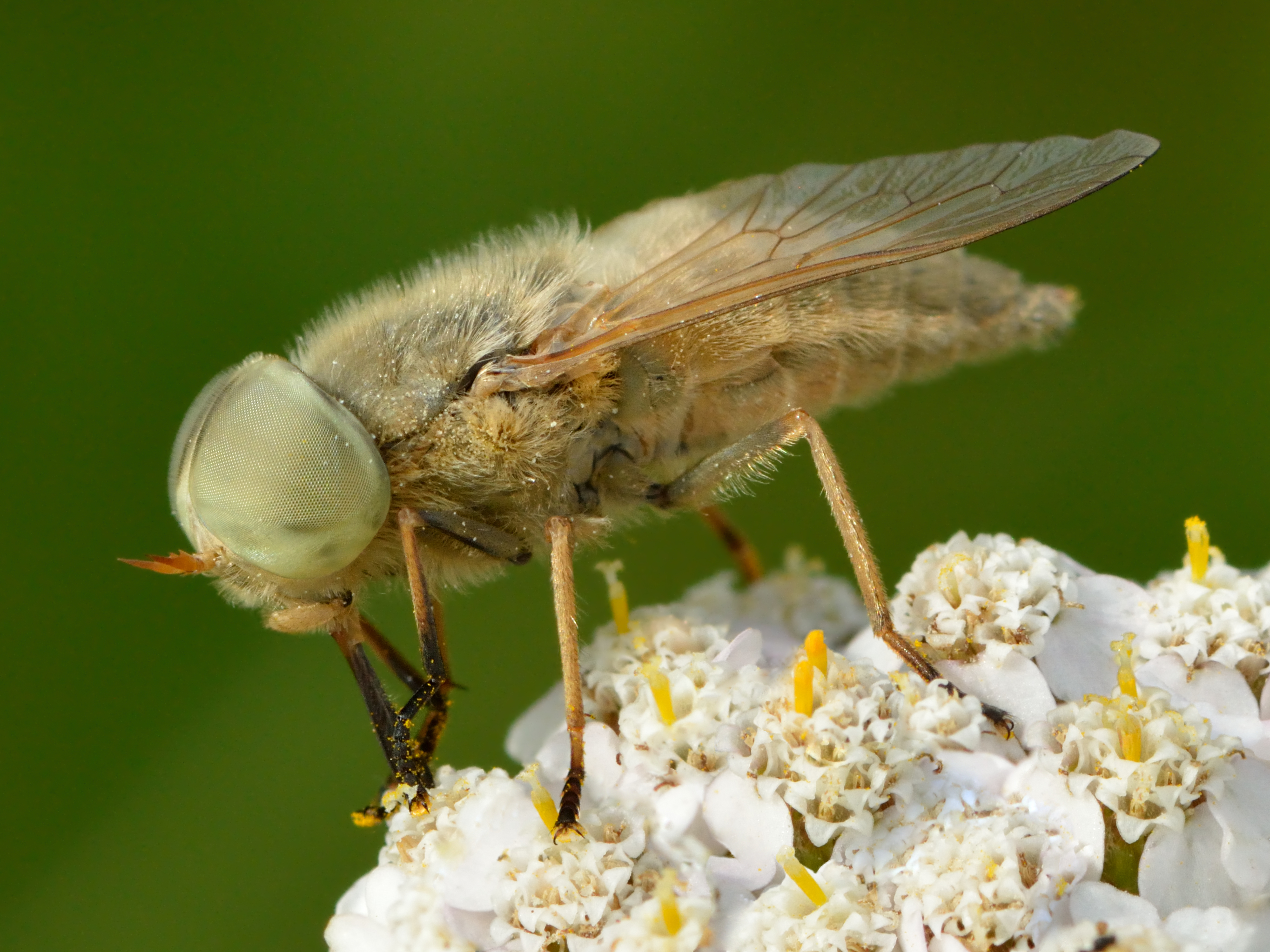 Male horse fly Atylotus rusticus on the common yarrow (Achillea millefolium). Valingu, Northwestern Estonia.